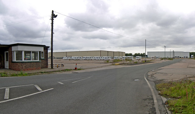 Capper Pass, Melton, East Riding of Yorkshire, England.This is the site of the old Capper Pass (RTZ Melton Works) smelter which closed in 1991. The security post now appears to the only remnant of the original plant.